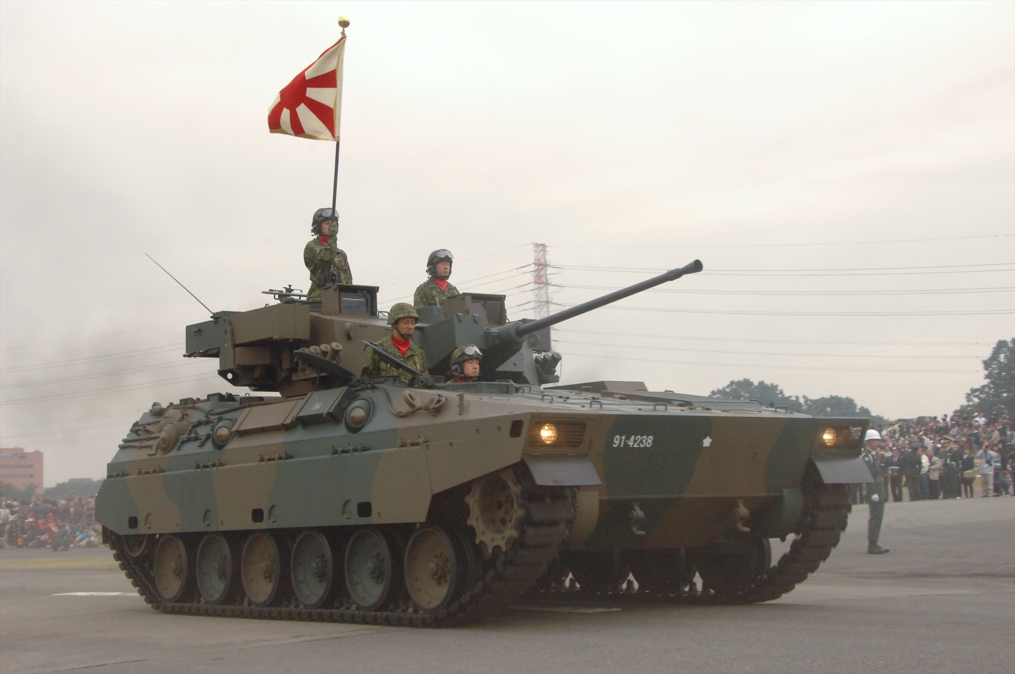 Title ８９式装甲戦闘車 Ｈ２２観閲式13_06_038_R.JPG Album 装備 ８９式装甲戦闘車（平成２２年度自衛隊観閲式）